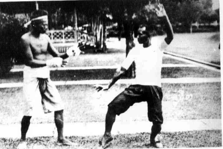 ท่าการฝึกมวยไชยา